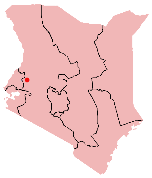 Eldoret, Kenya Location Map; created with the GIMP. Made by User:Acntx.